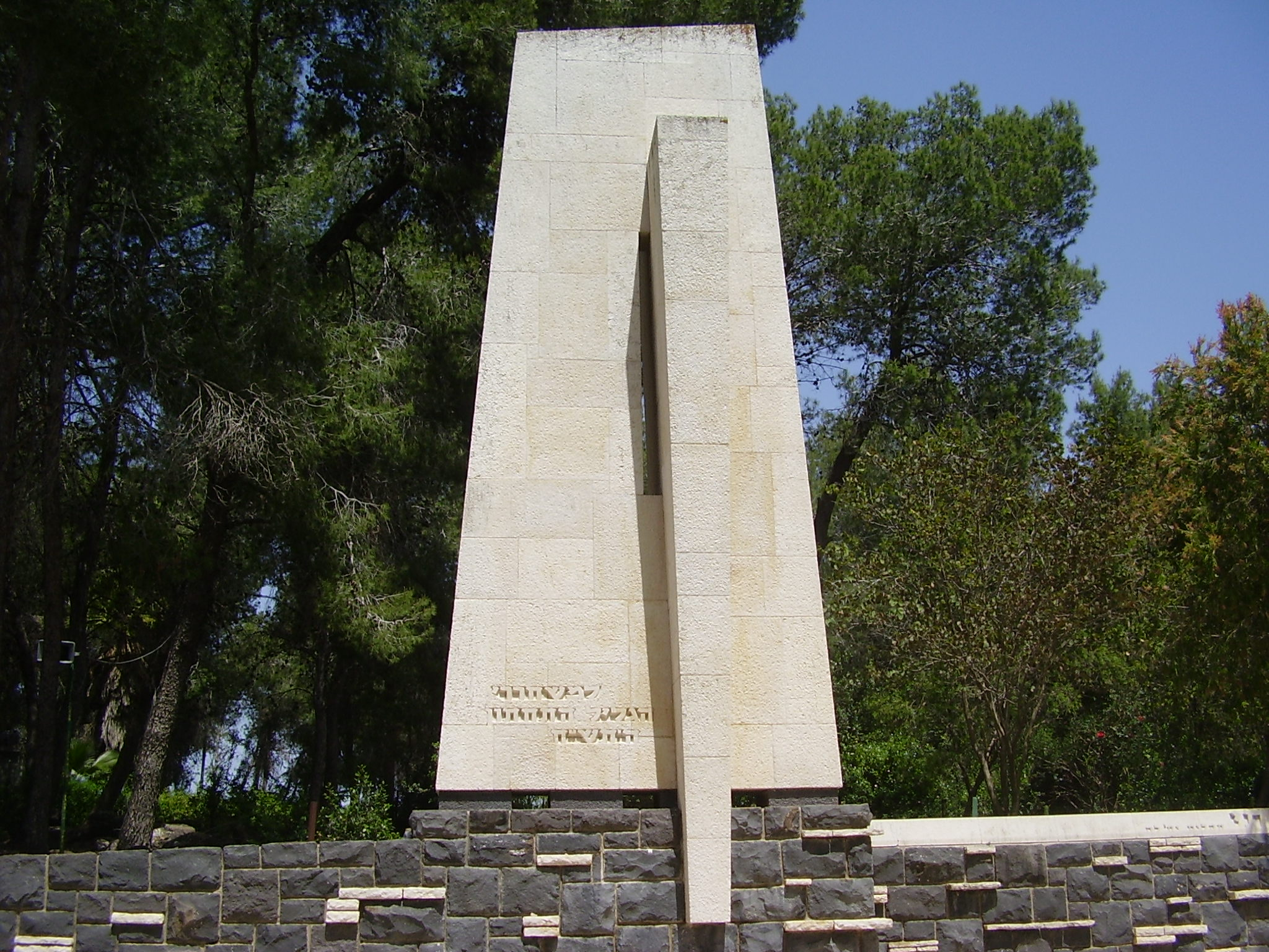 independence war memorial in golani museum